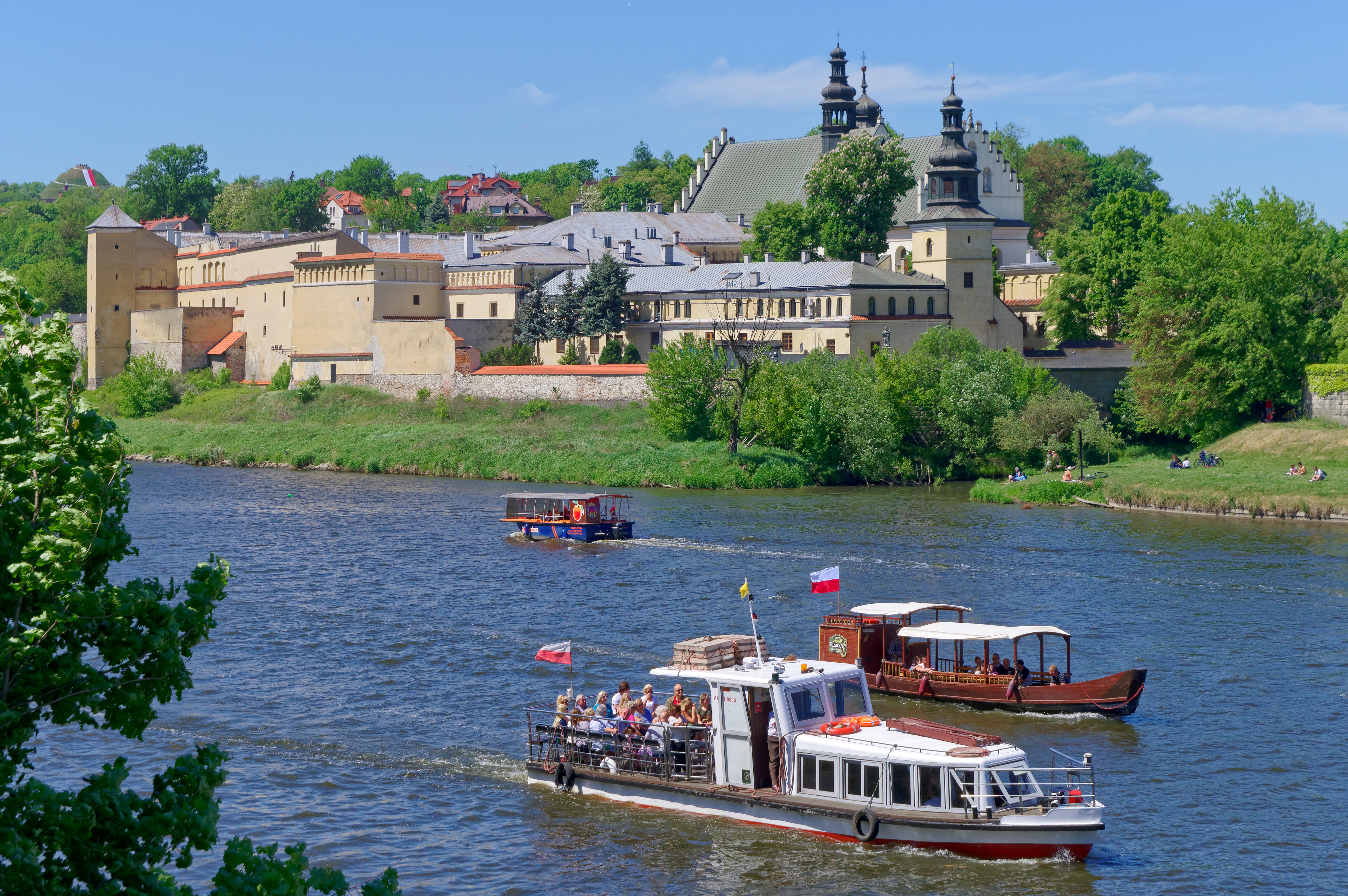 Norbertines monastery in Kraków